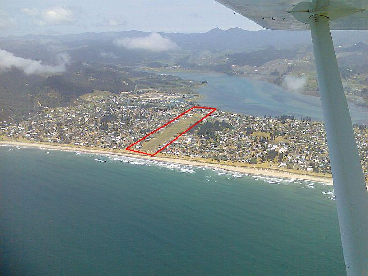 Photo taken 23 Nov 2009 from an aircraft at approx 2000ft 2 miles to the East of Pauanui Airfield.